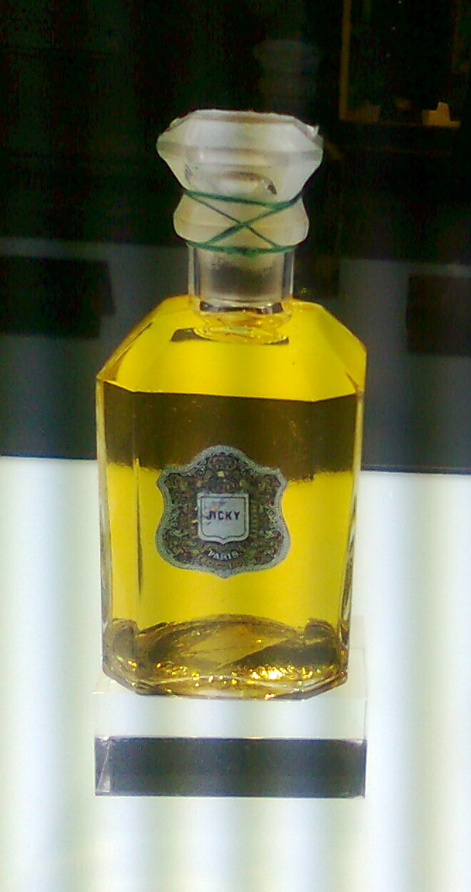 Guerlain